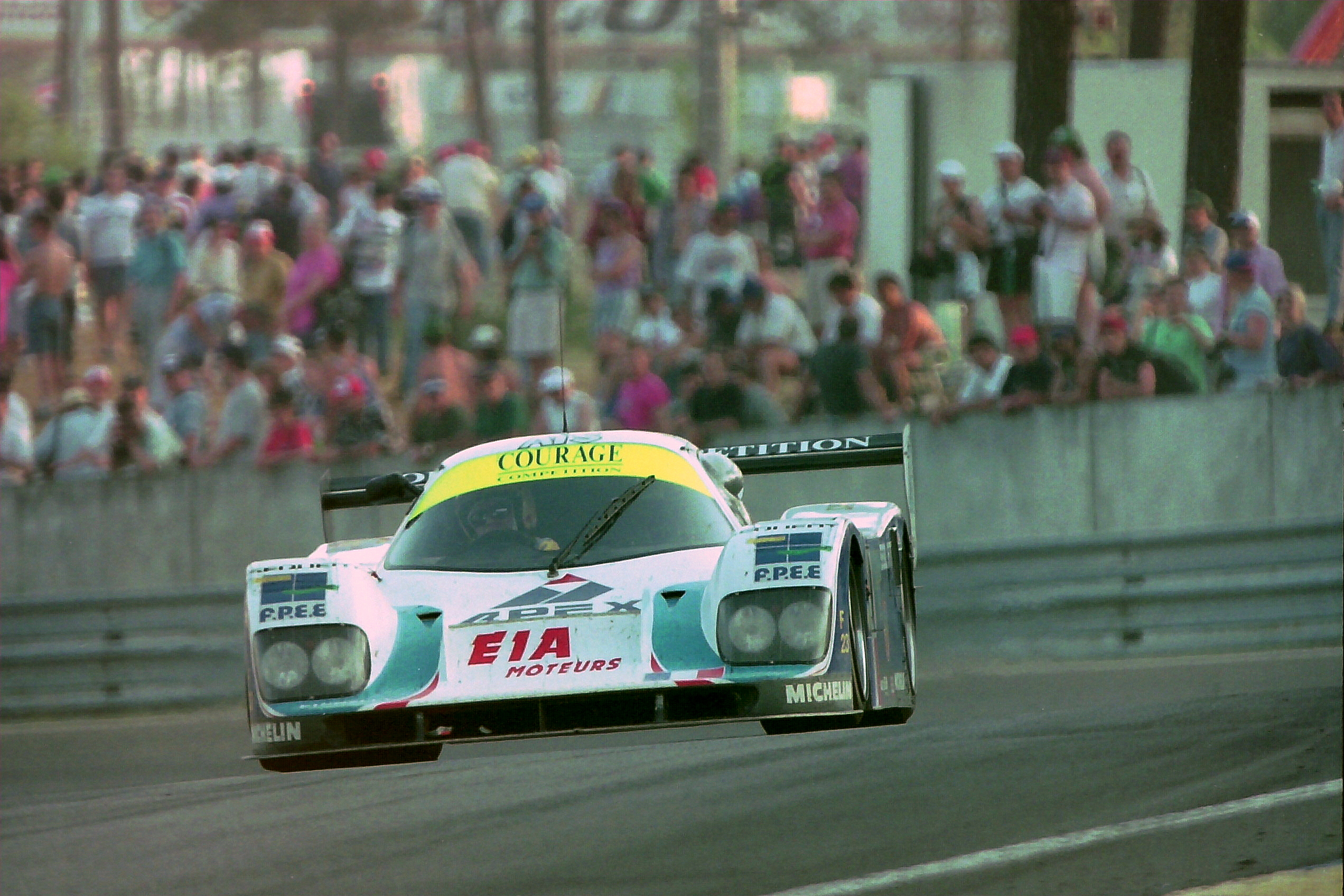 Courage C32LM - Jean-Louis Ricci, Philippe Olczyk & Andy Evans exits the Esses at the 1994 Le Mans